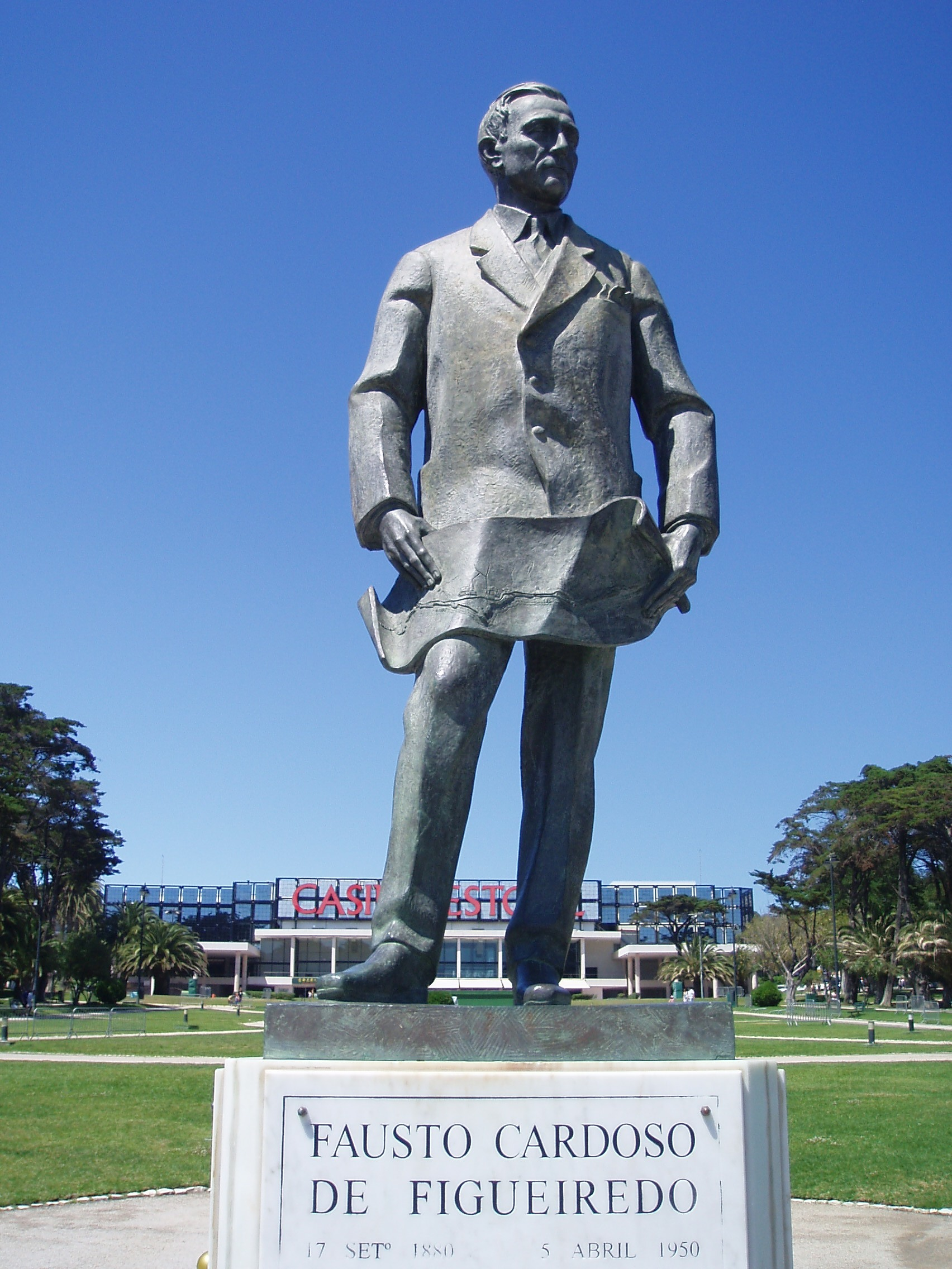 Statue of Fausto Cardoso de Figueiredo in Estoril, Portugal.